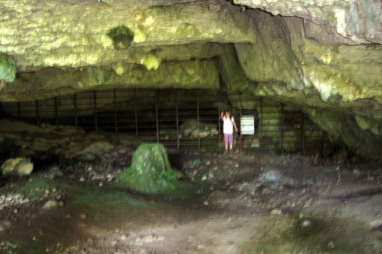 Iron bars in the enter of Linars cave, Alzou valley, Rocamadour, Lot, France.